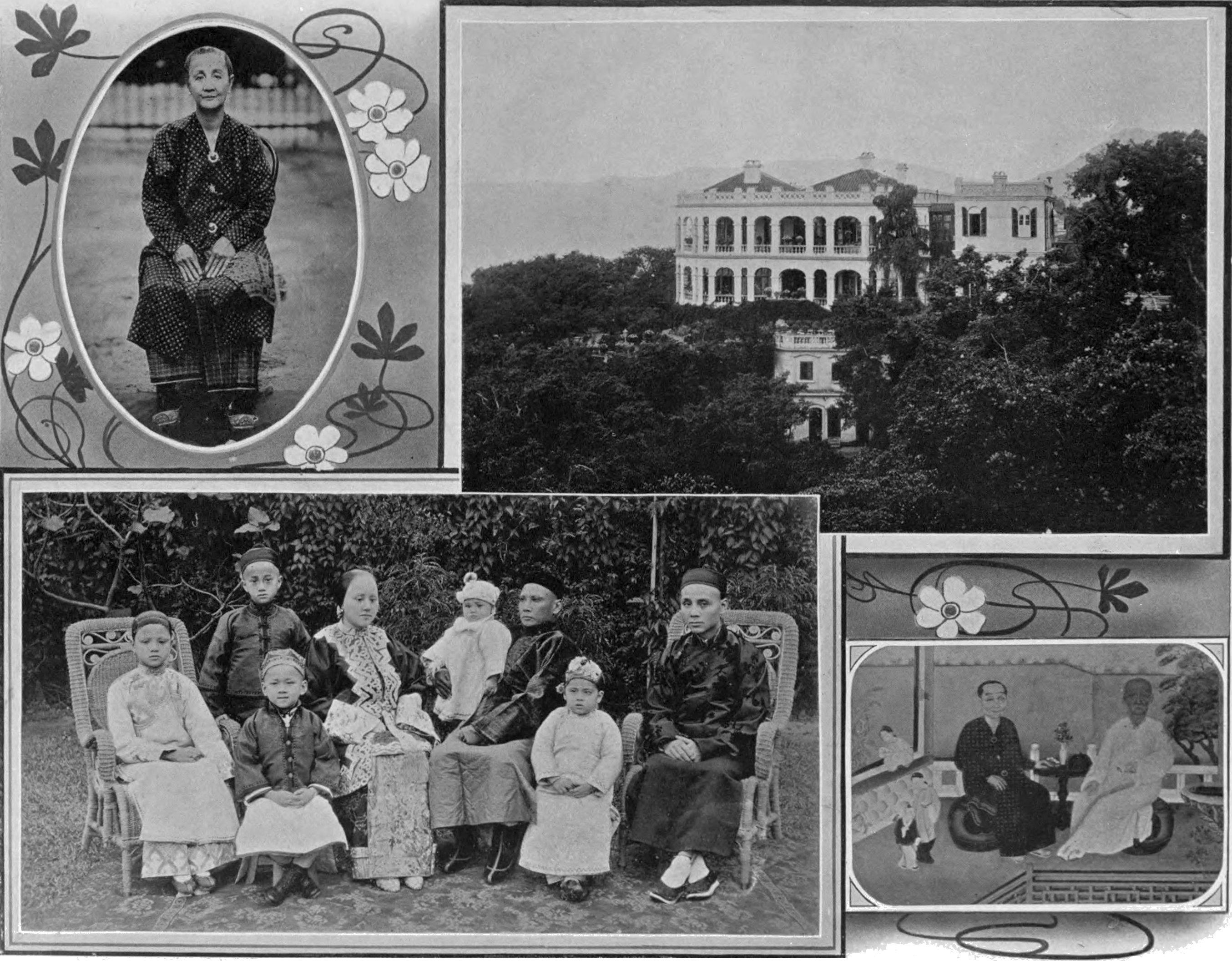 Choa Leep Chee and family - Hong Kong